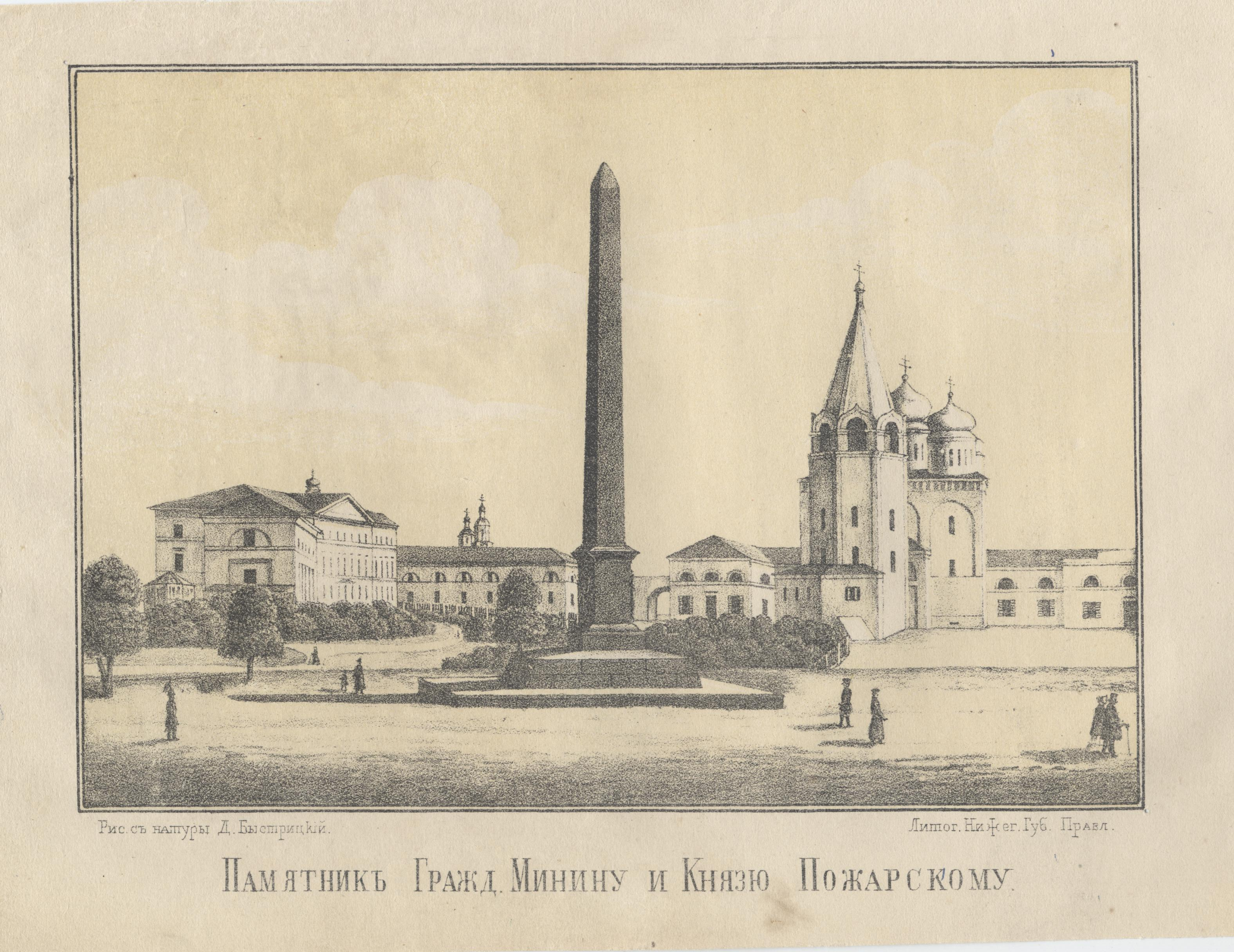 Nizhny Novgorod. Monument to Minin and Prince Pozcharsky